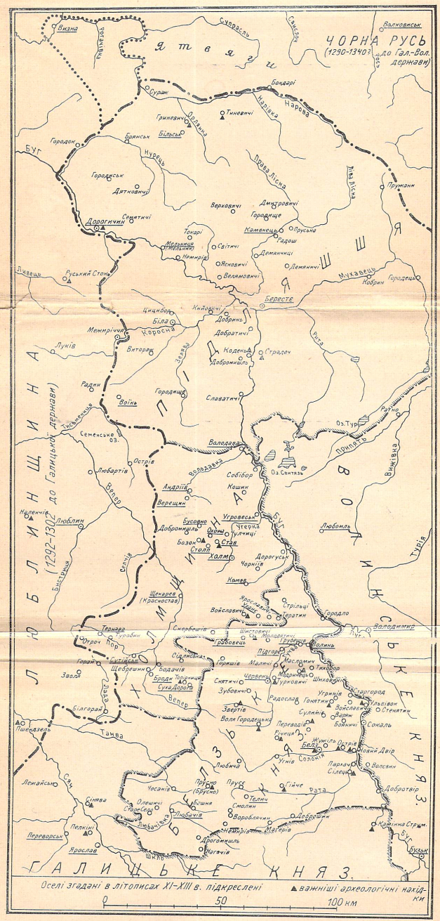 Map of Kholmshchyna and Pidliashia in the Middle Ages by Myron Korduba.